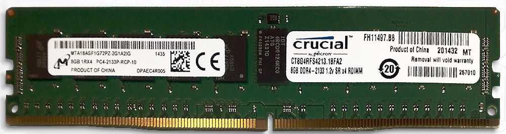 8 GB DDR4-2133 288-pin ECC 1.2 V RDIMMs (Crucial p/n: CT8G4RFS4213.18FA2); this is actually a kit of four DDR4 RDIMMs (Crucial p/n: CT8G4RFS4213), and the third one is partially visible in the picture.